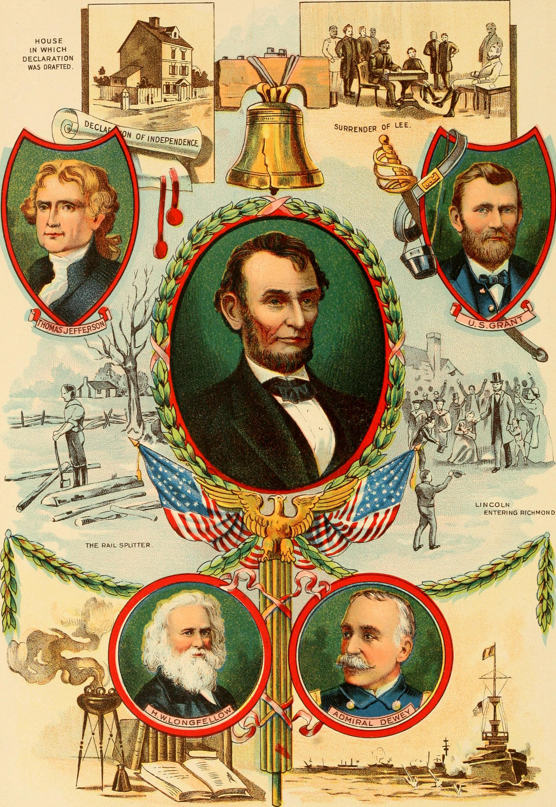 Distinguished Americans of the 19th Century Title: Grandest century in the world's history; containing a full and graphic account of the marvelous achievements of one hundred years, including great battles and conquests; the rise and fall of nations; wonderful growth and progress of the United States ... etc., etc Year: 1900 (1900s) Authors: Northrop, Henry Davenport, 1836-1909 Subjects: Nineteenth century Publisher: Philadelphia, Pa., National publishing co Text Appearing Before Image: HOUSE IN WHICH DECLARATrON WAS ORAREO. Text Appearing After Image: Copyright, 1900, by George W. Bertron. DISTINGUISHED AMERICANS OF THE CENTURY PART I. Great Events of American History IN THE NINETEENTH CENTURY. CHAPTER I.The Louisiana Purchase. ^